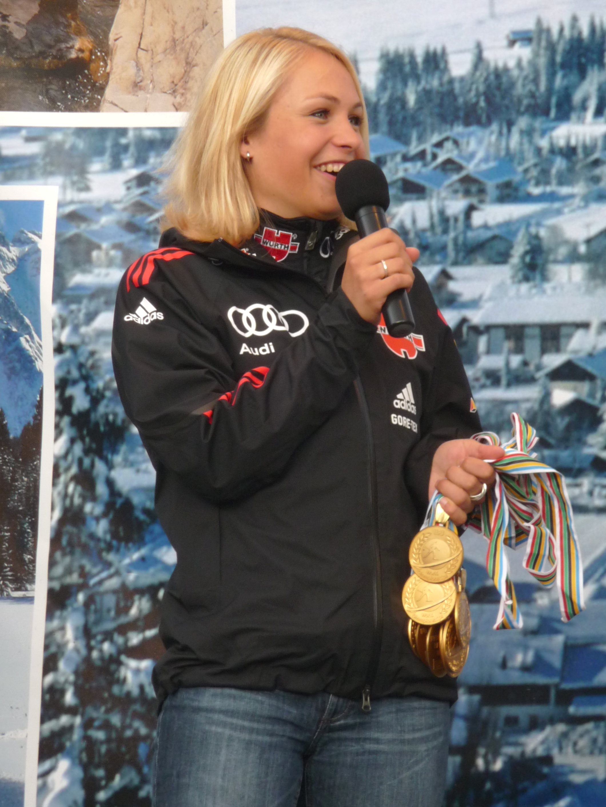 Biathlete Magdalena Neuner showing her 10 world championship gold medals at a festivity in Wallgau, Germany, April 29, 2011